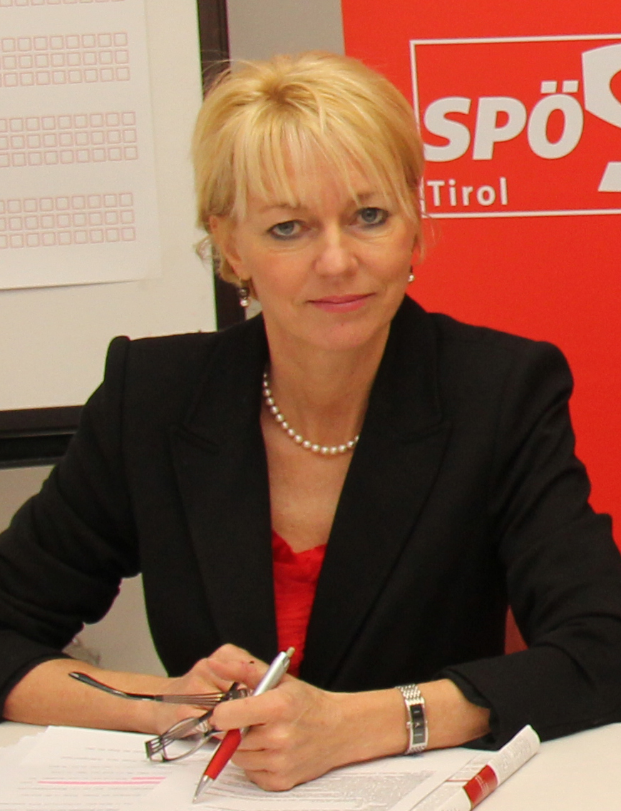 Gabriele Schiessling